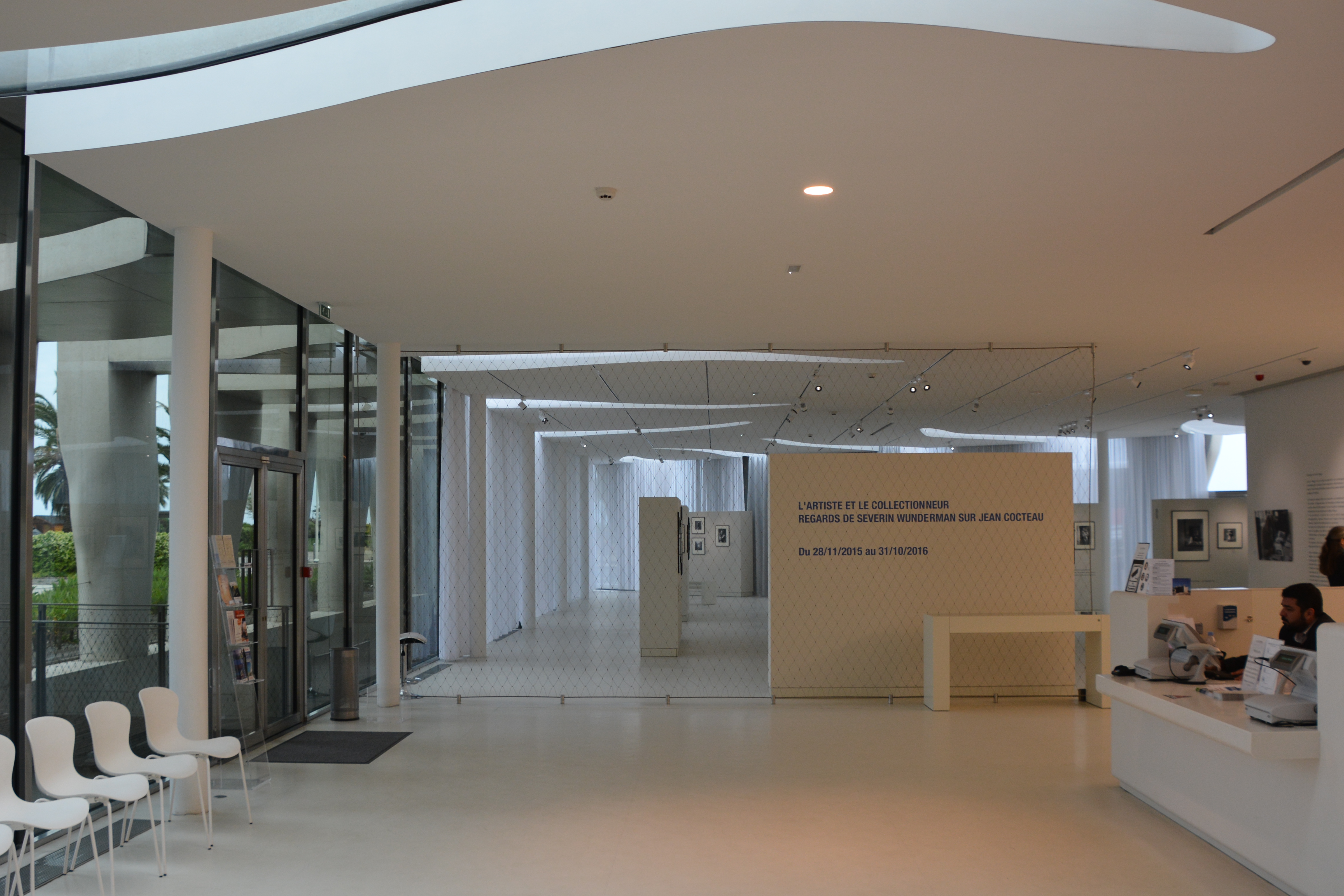 Musée Jean Cocteau, Menton, entrance hall